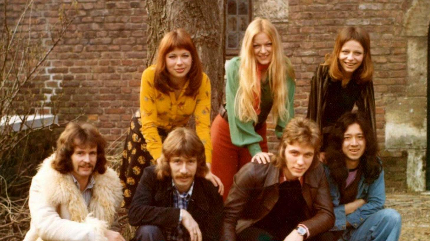 A colored photograph of the members of Sweet Reaction before 'Pussycat'